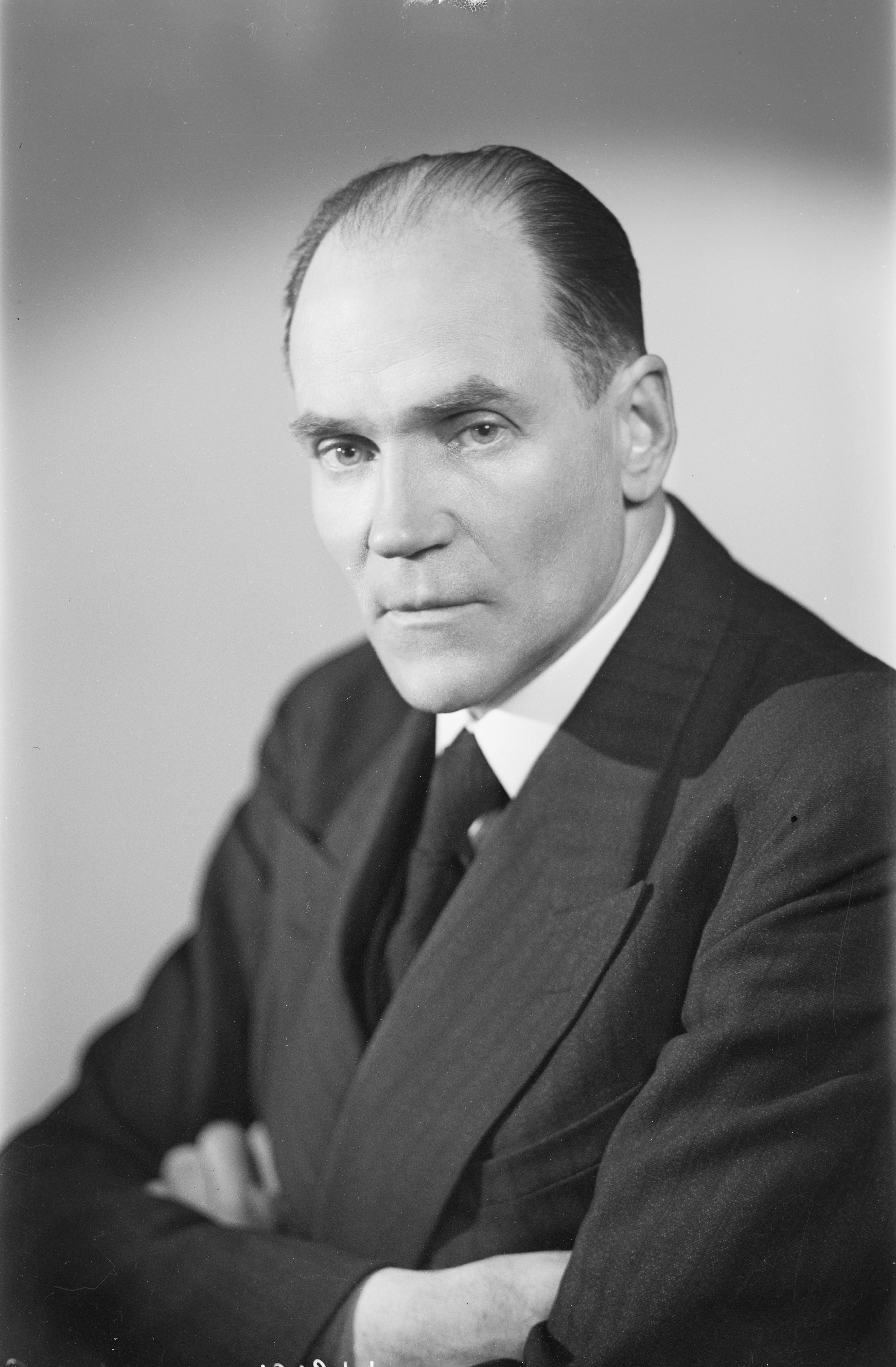 Photograph of the Finnish architect and artist Matti Visanti (1885–1957).